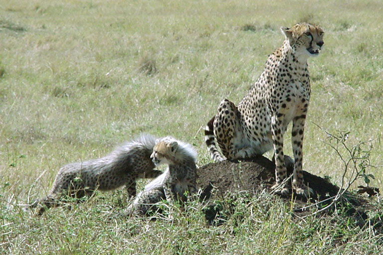 Tanzanian cheetah (Acinonyx jubatus raineyi) and cubs in Masai Mara, Kenya